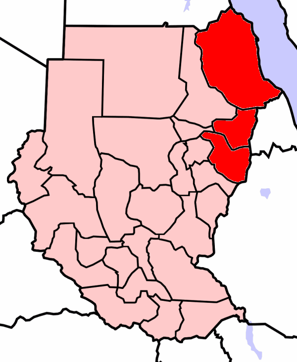 The three states in Sudan which constitute the stronghold of the Eastern Front (Sudan) Based on Image:Al-Qadarif.PNG by User:Thommess. See also